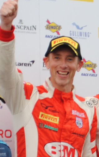 Shaun Balfe on the top step of the podium at Donington, after winning the final round in 2019 with Rob Bell.